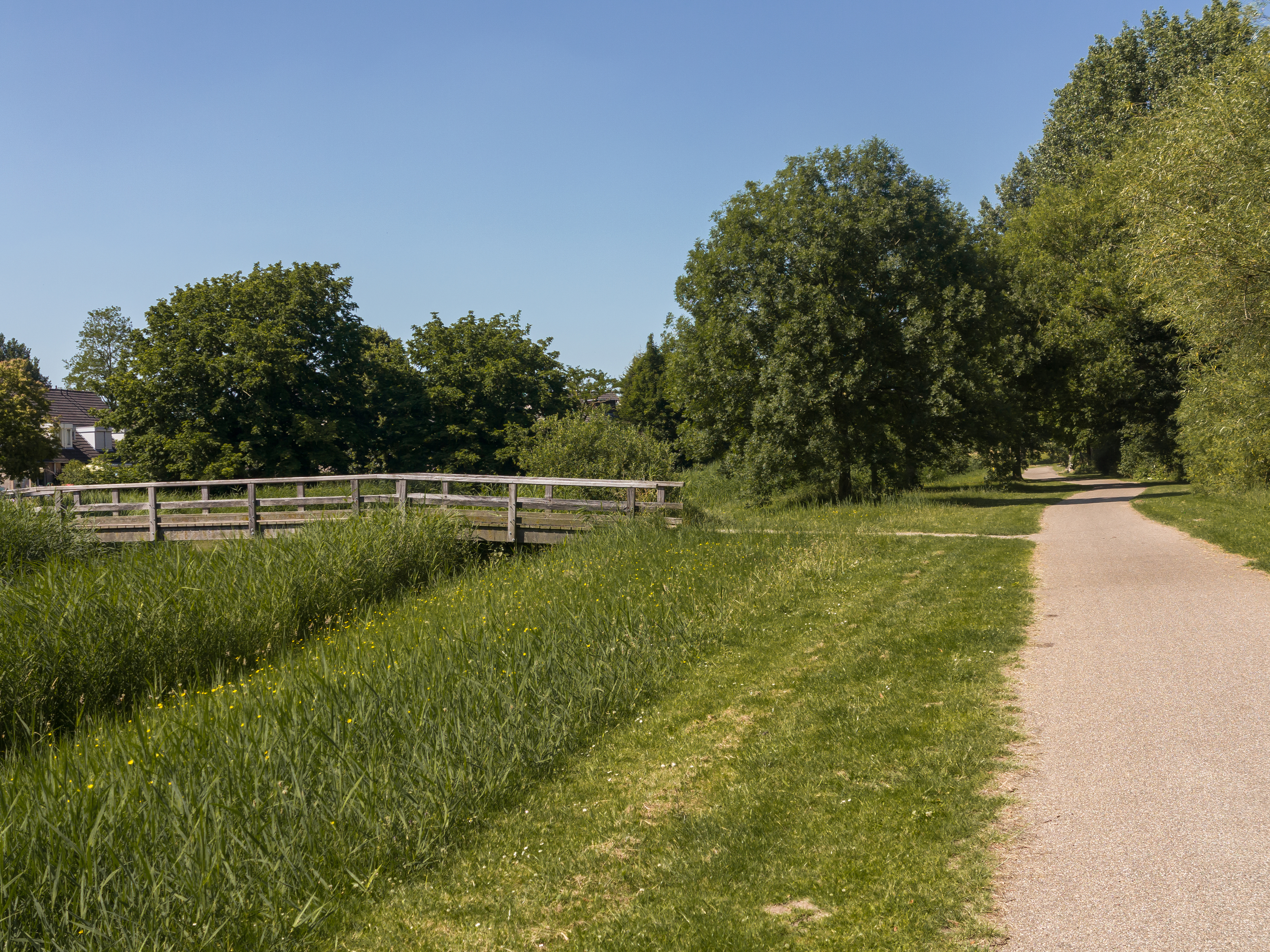 Arnhem De Laar oost, wooden bridge in het Jublieumpark